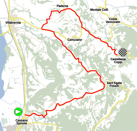 Map of stage 1 from Giro donne 2019